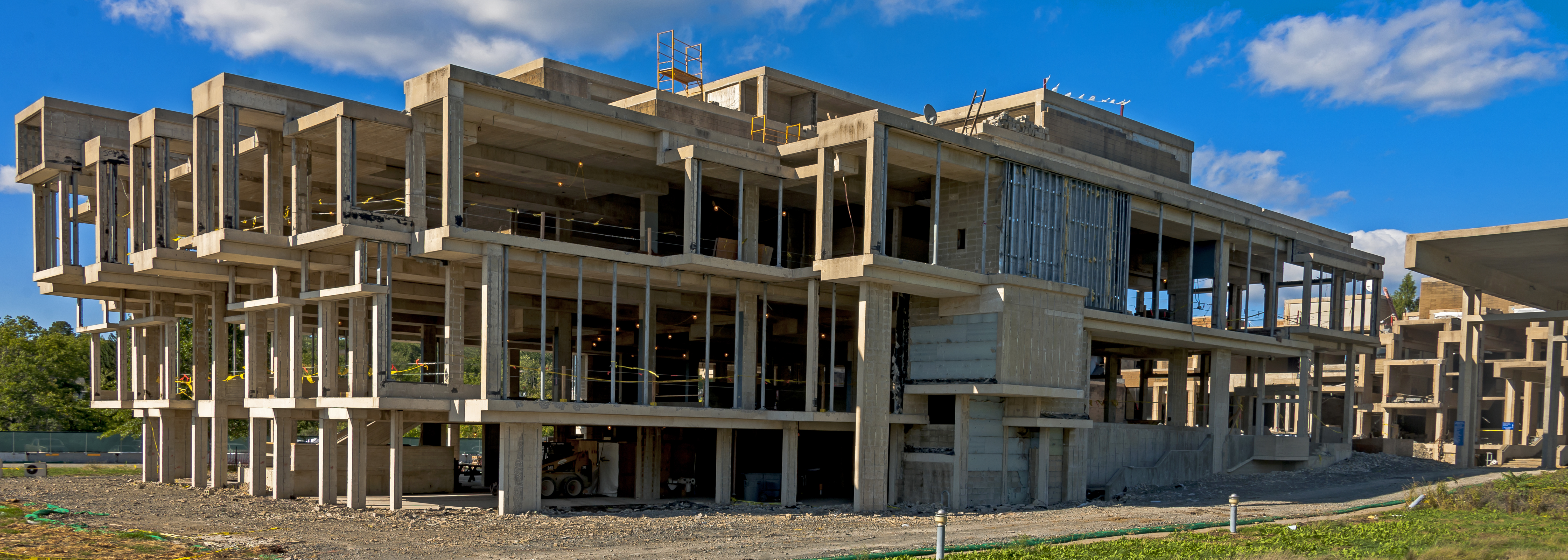 The Orange County Government Center reduced to its structural members during its demolition in September 2015